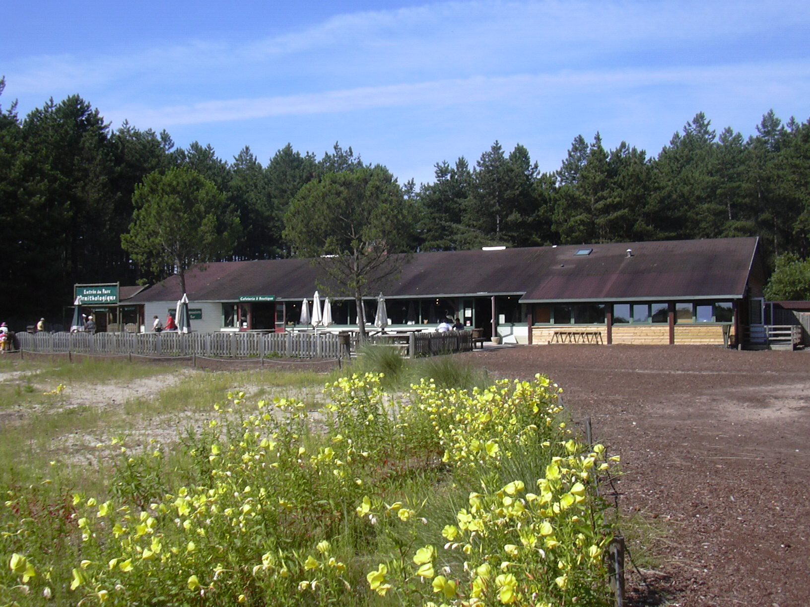 Parc du Marquenterre, Picardie/France; entrance and information centre.